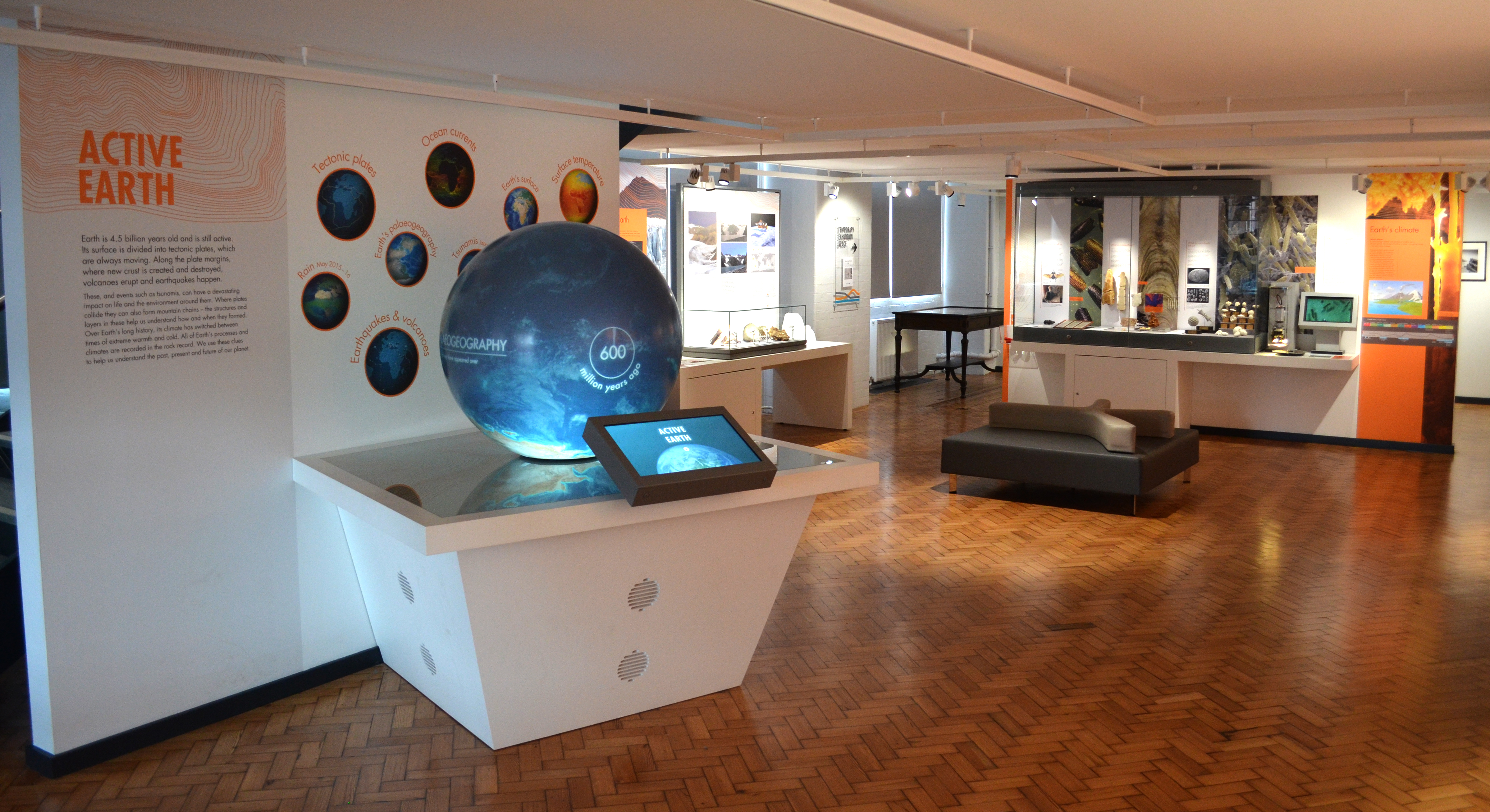 Active Earth gallery of the Lapworth Museum of Geology